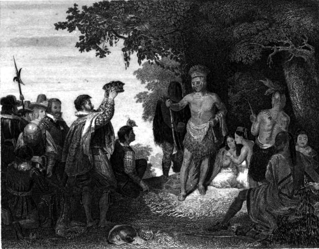 "The Coronation of Powhatan," by the American artist John Cadsby Chapman, oil on canvas. Courtesy of the Greenville Museum of Art, Greenville, South Carolina.